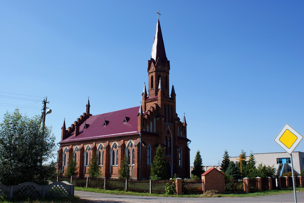 Catholic church of the Sacred Heart of Jesus in Stałavičy